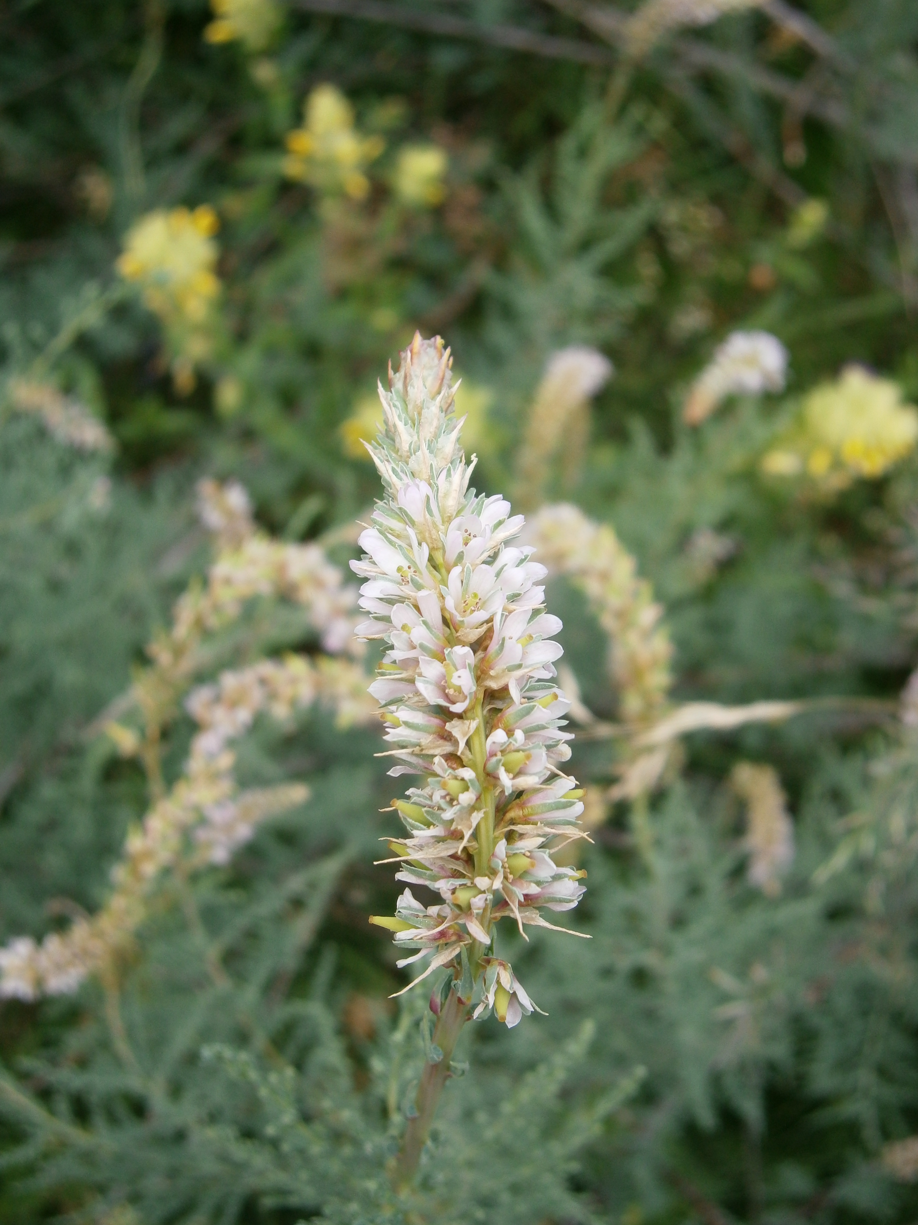 Myricaria germanica close-up